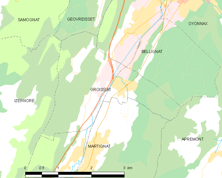 Map of French commune: Groissiat Map commune FR insee code 01181.png